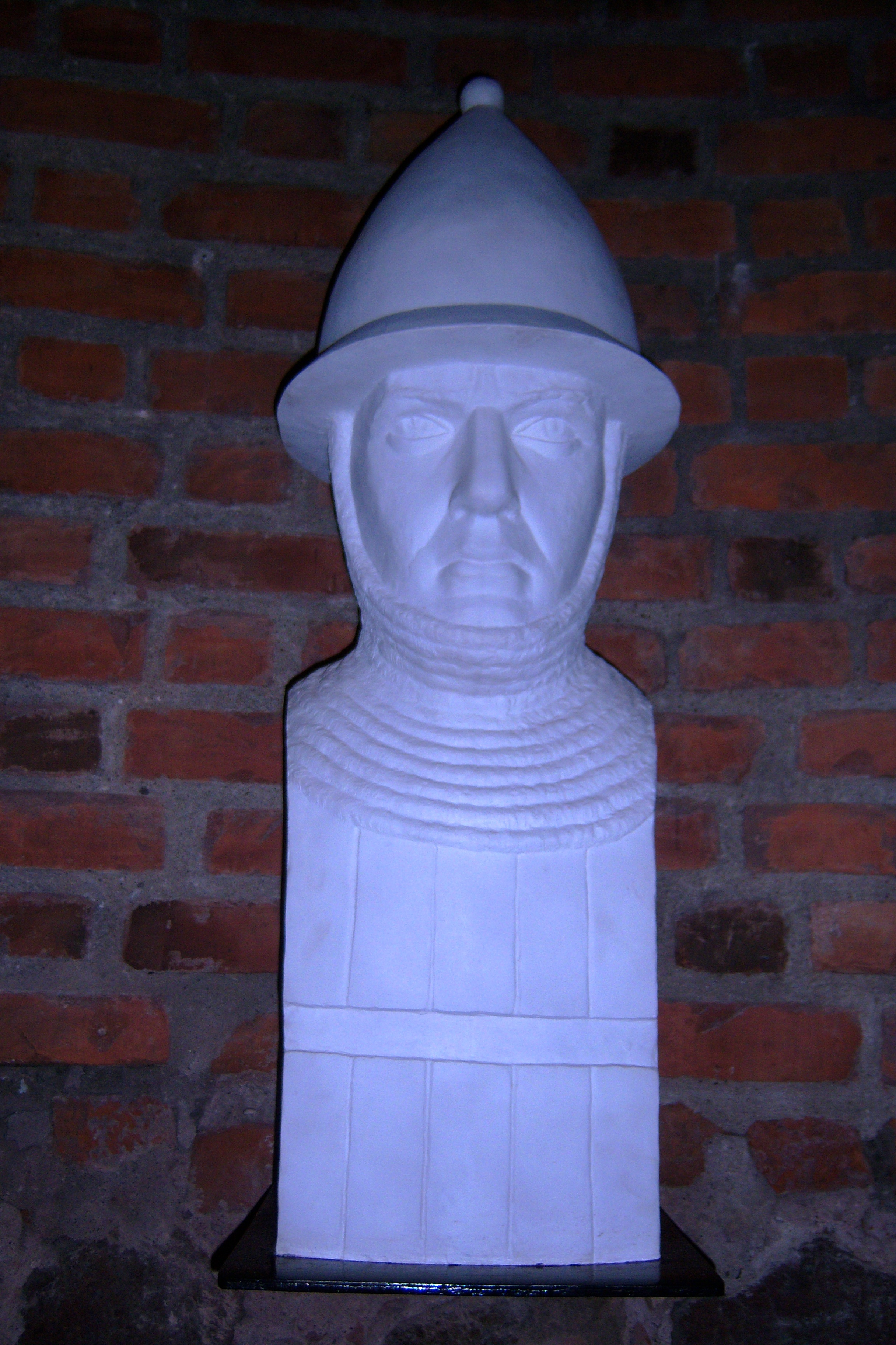 Vaidotas-Lithuanian Duke, Son of Grand Duke Kęstutis. A Bust in Kaunas Castle